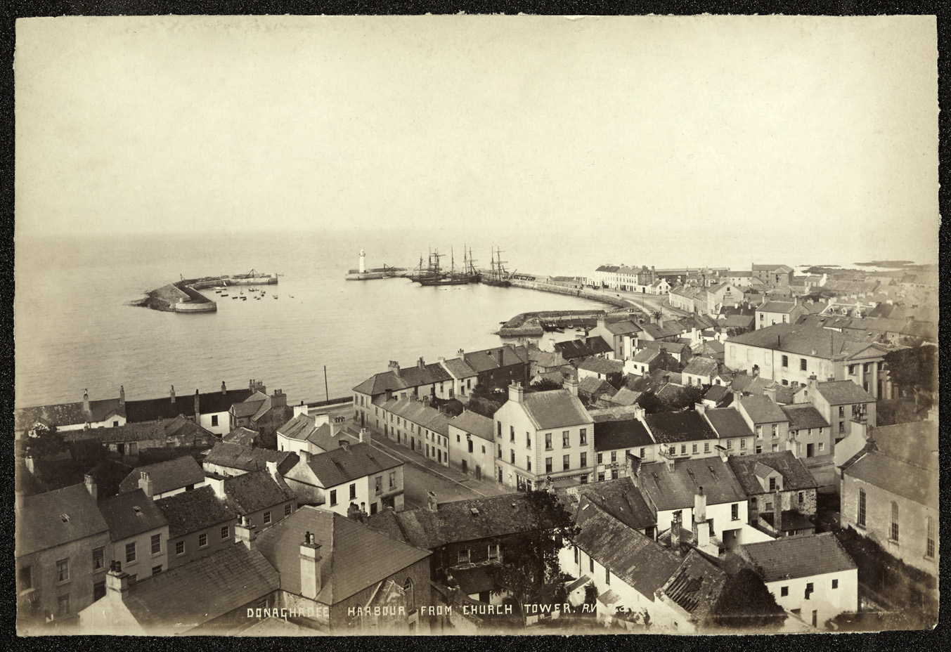 Creator: R. Welch (Photographer) Date: 1914 Original Format: Photographic Print Description: Donaghadee Harbour from Church Tower PRONI Ref: D1403_2~017~A Copying and copyright: Please For Copy Orders, contact: For fees and charges